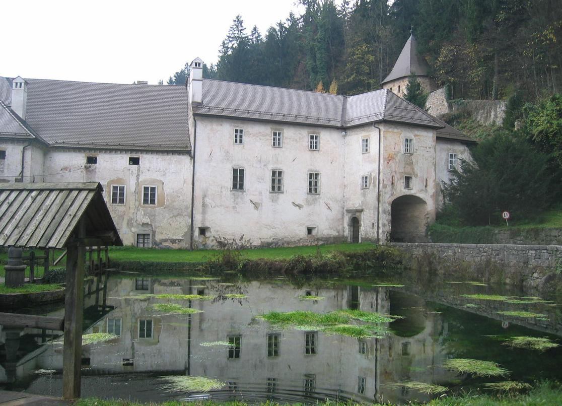 karst spring of river Bistra, tributary to river Ljubljanica, Slovenia